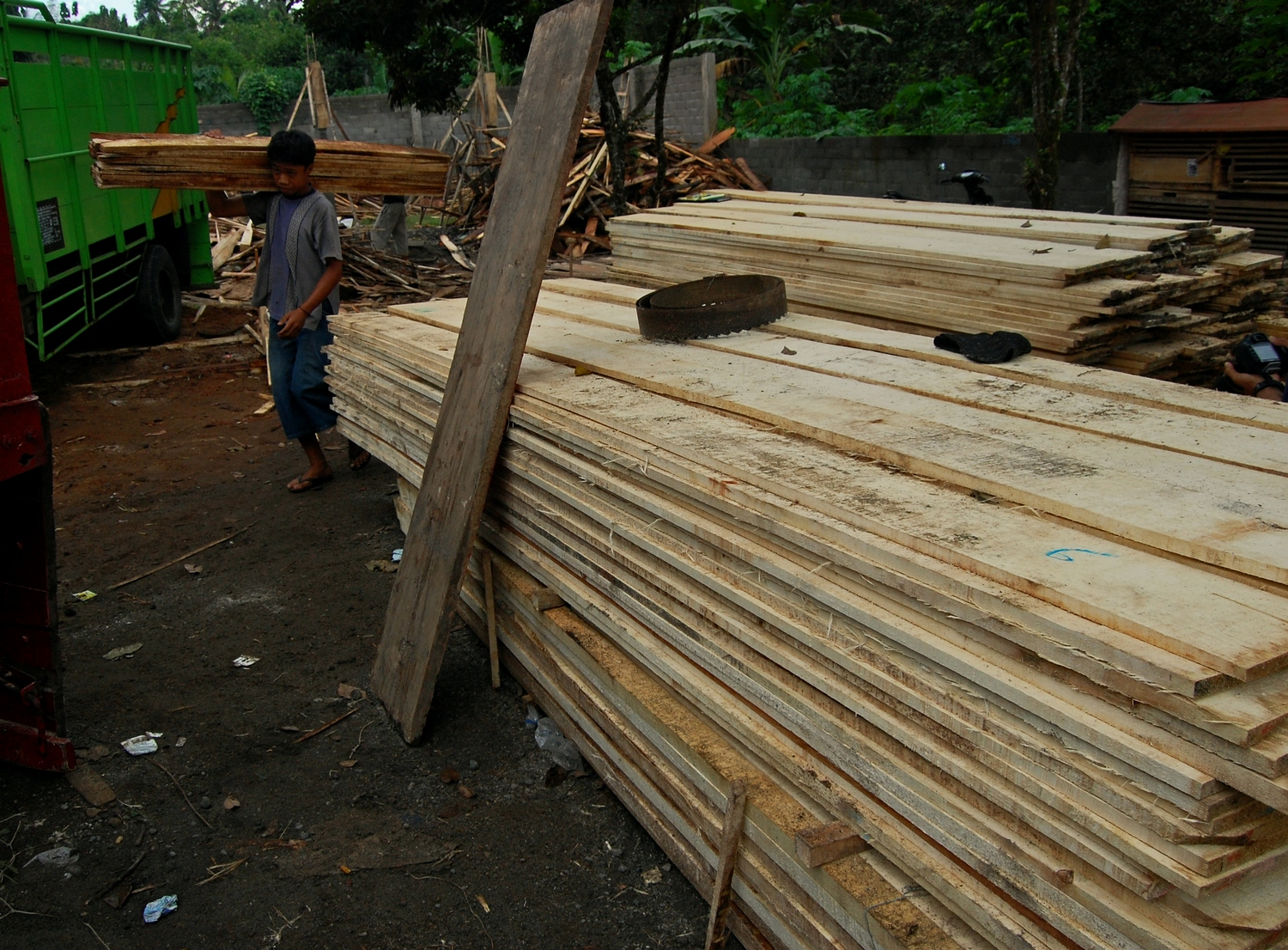 Candlenut (Aleurites moluccana), sawn timber (plank). Narmada, Lombok, Indonesia